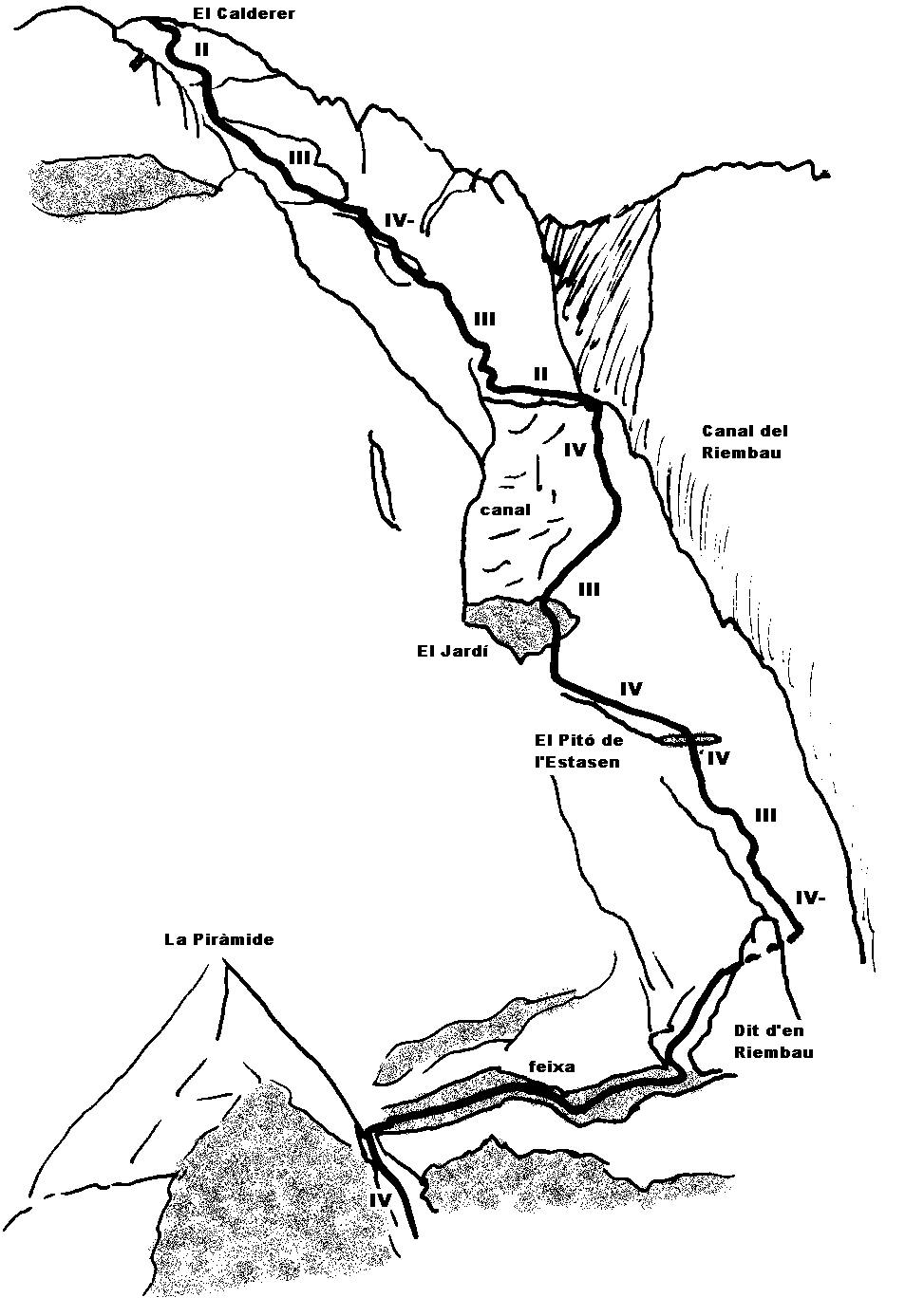 Schema via Estasen, face N Pedraforca (Berguedà Catalonia)